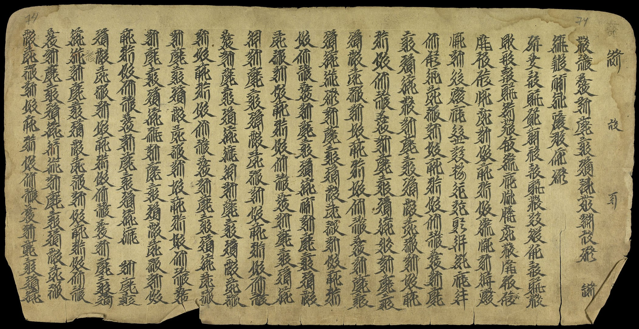 Page from a manuscript copy of the Heart Sutra (Chinese 般若波羅密多心經), found at Kharakhoto in 1909. Now held at the Institute of Oriental Manuscripts (Tang.334/134).